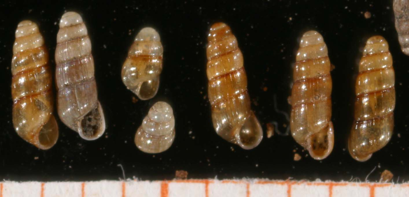 Acicula lineata (Draparnaud, 1801), Aciculidae, Architaenioglossa, Gastropoda, Gorges de Mautier, Switzerland